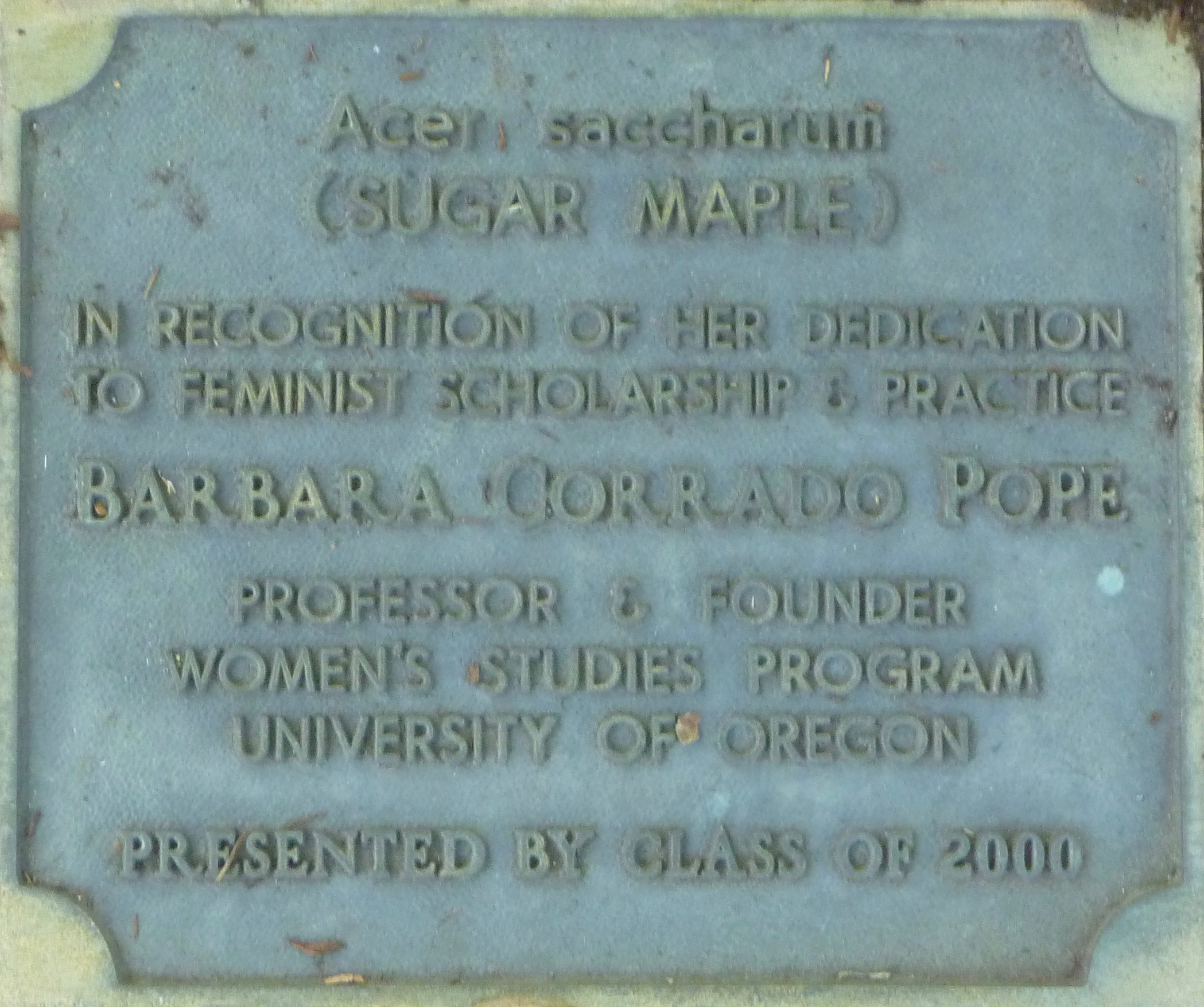 Brass plaque at base of maple tree, planted by Class of 2000 to recognize Barbara Corrado Pope